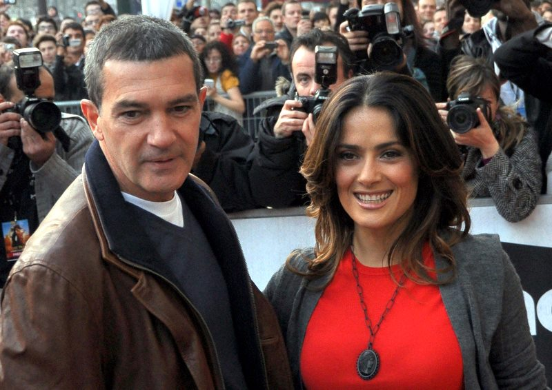 Antonio Banderas and Salma Hayek at the premiere of Puss in Boots 3D in Paris